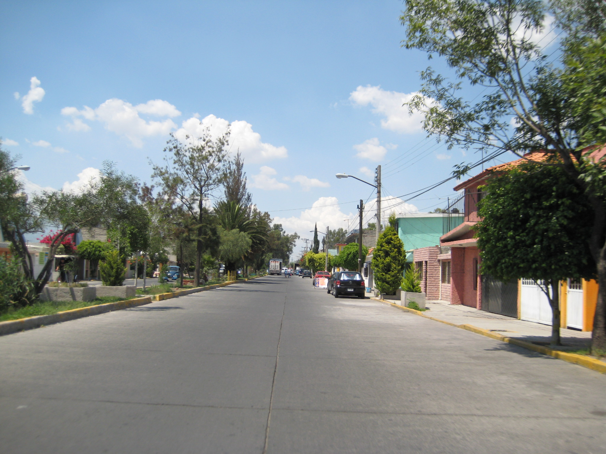 Colonia Ciudad Azteca, Ecatepec de Morelos